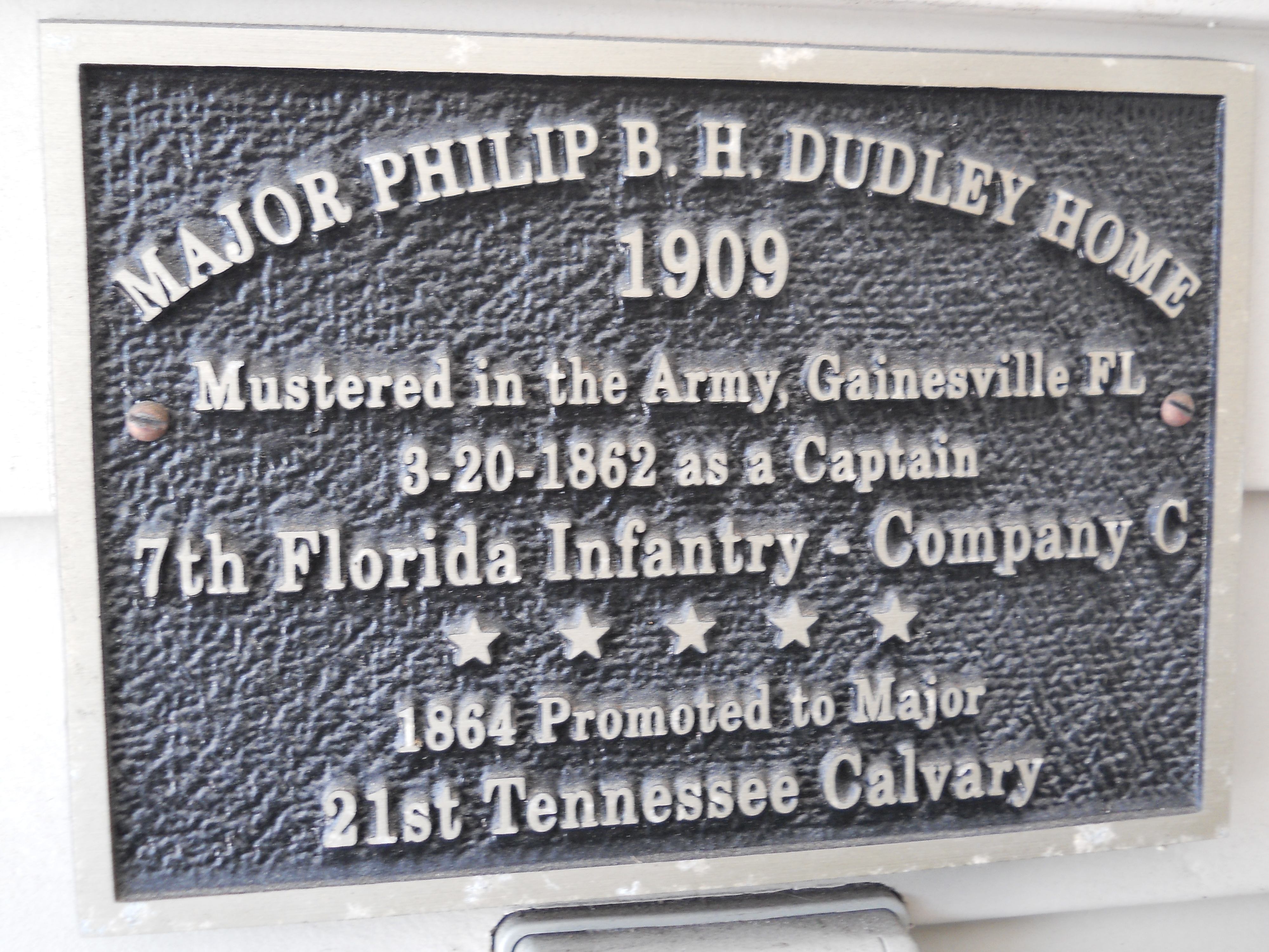 Plaque on Dudley - Bessey House, built 1890, 110 SW Atlanta Avenue, Stuart, Florida